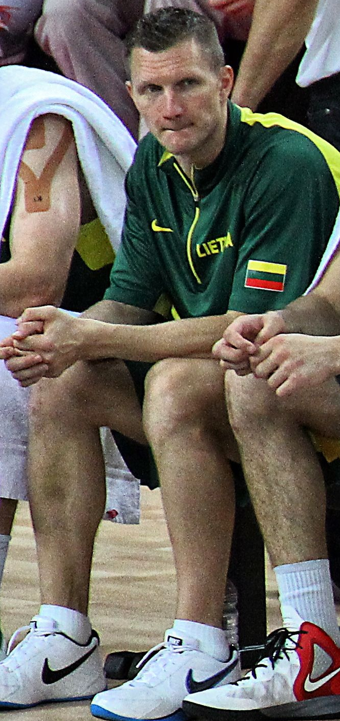 Photo of Rimantas Kaukėnas during the 2012 Summer Olympics in London as a Lithuania men's national basketball team member.